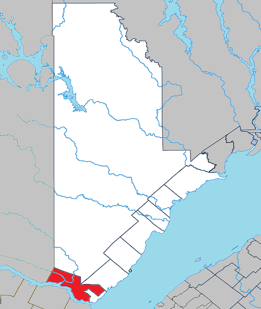 Location of Sacré-Coeur, Quebec within La Haute-Côte-Nord Regional County Municipality.